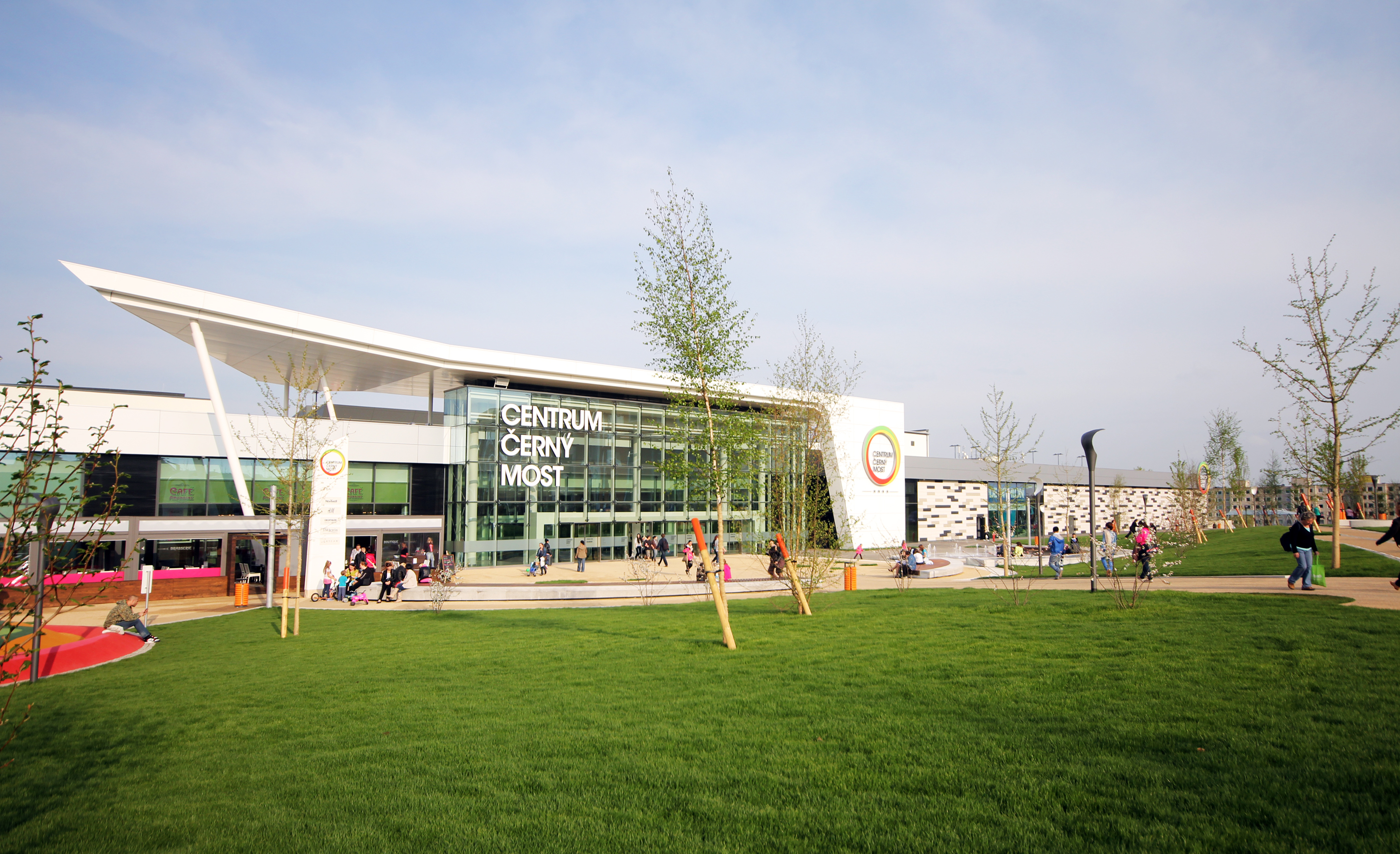 Shopping centre Černý Most after large rebiulding in 2013, Černý Most, Prague, Czech Republic